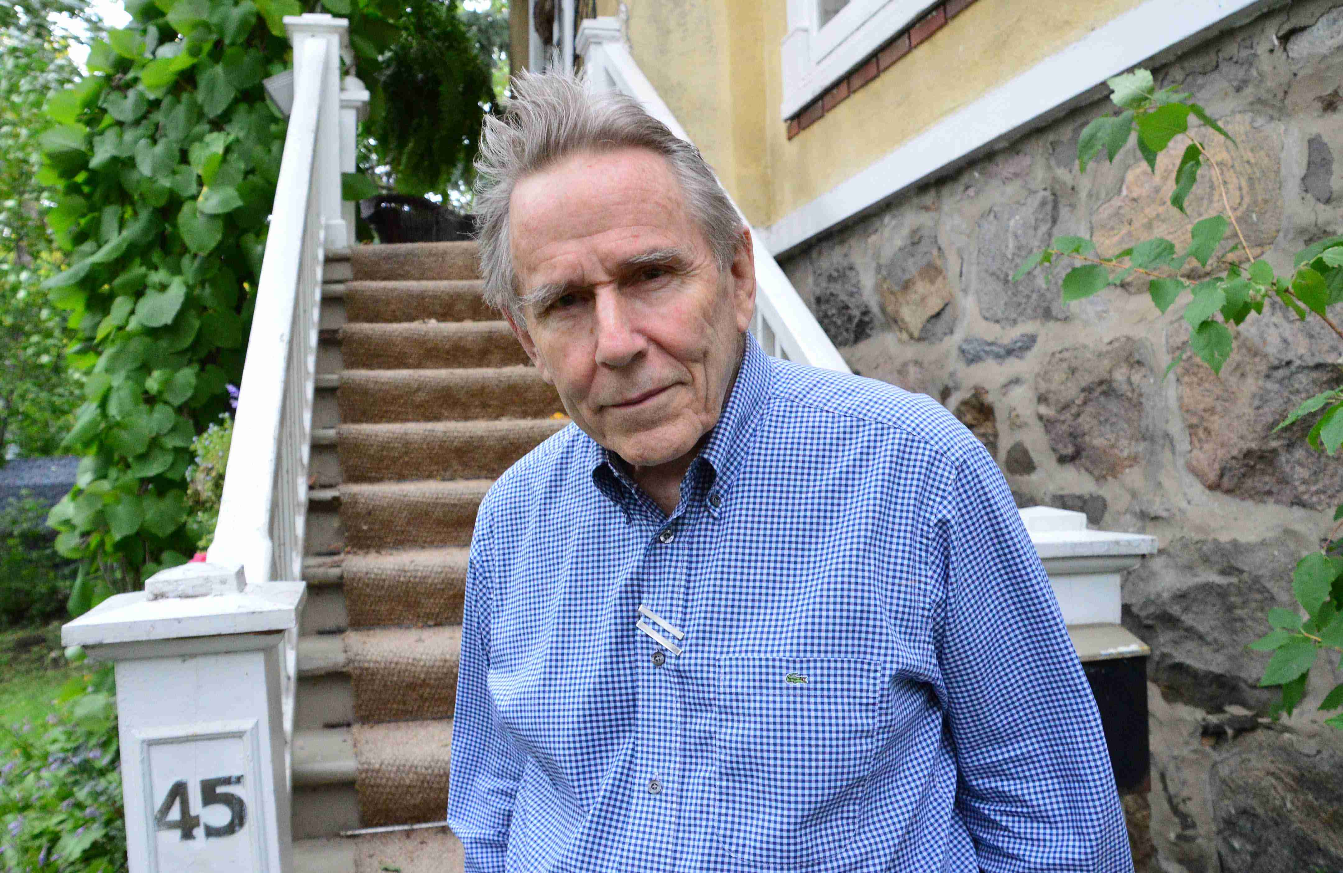 Montreal architect and urban conservationist Michael Fish, photographed in Sept. 2014 outside his Longueuil, QC home.